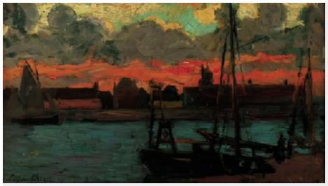 Port des Gravelines (1902) by Eugène Chigot (1860-1923)